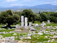 Temple of Dionysus at Teos